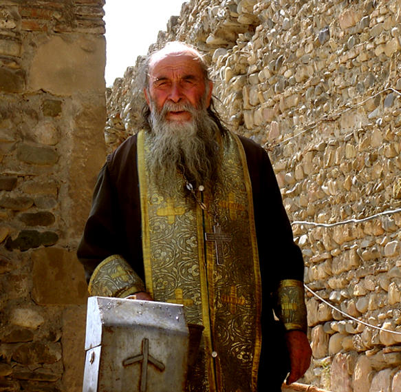 Georgian Orthodox priest in Mtskheta, Georgia (country)